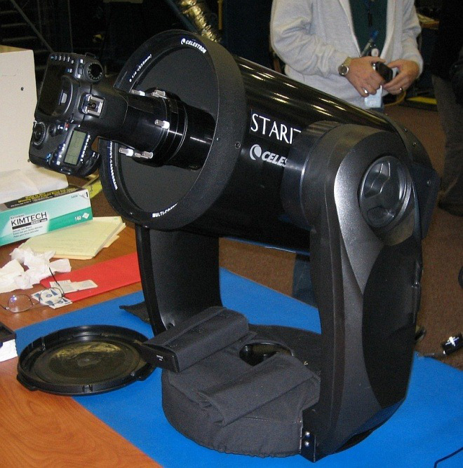 The ISERV camera, will be positioned on the space station to look through Destiny's Earth-facing window. ISERV will receive commands from Earth and acquire image data of specific areas on the Earth the next time the station passes over the region